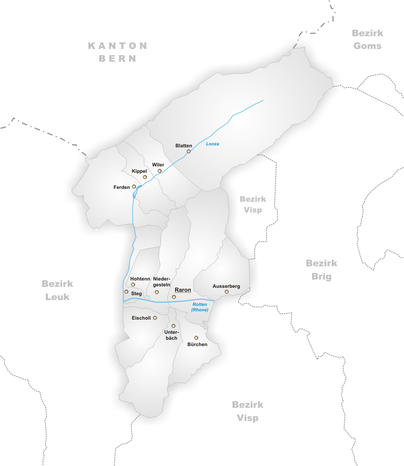 Municipalities of District Westlich_Raron